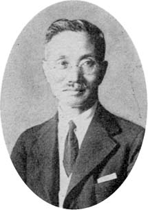 Mr. Kenjirō Fujii, Advisor of the Education Association of Kyoto Prefecture.